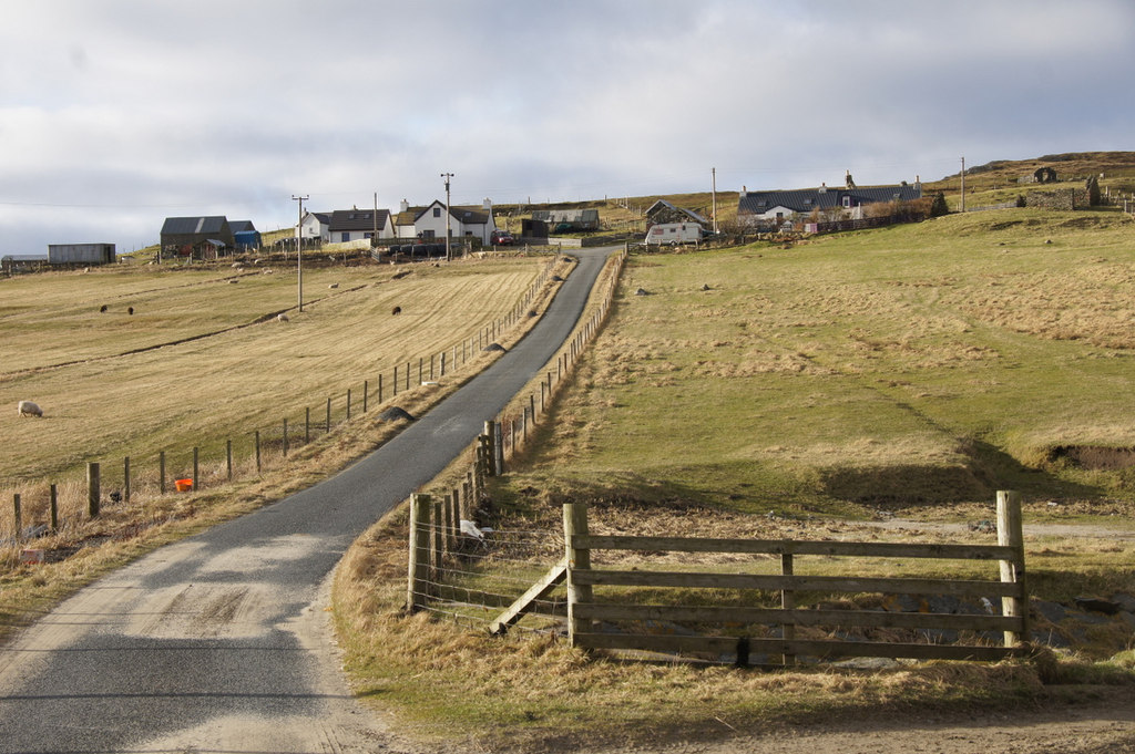 Sandvoe, North Roe